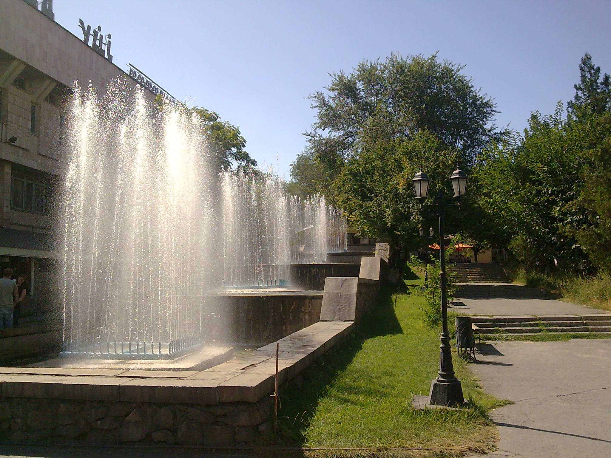 The fountains near the Central Multipurpose Shop (ЦУМ)